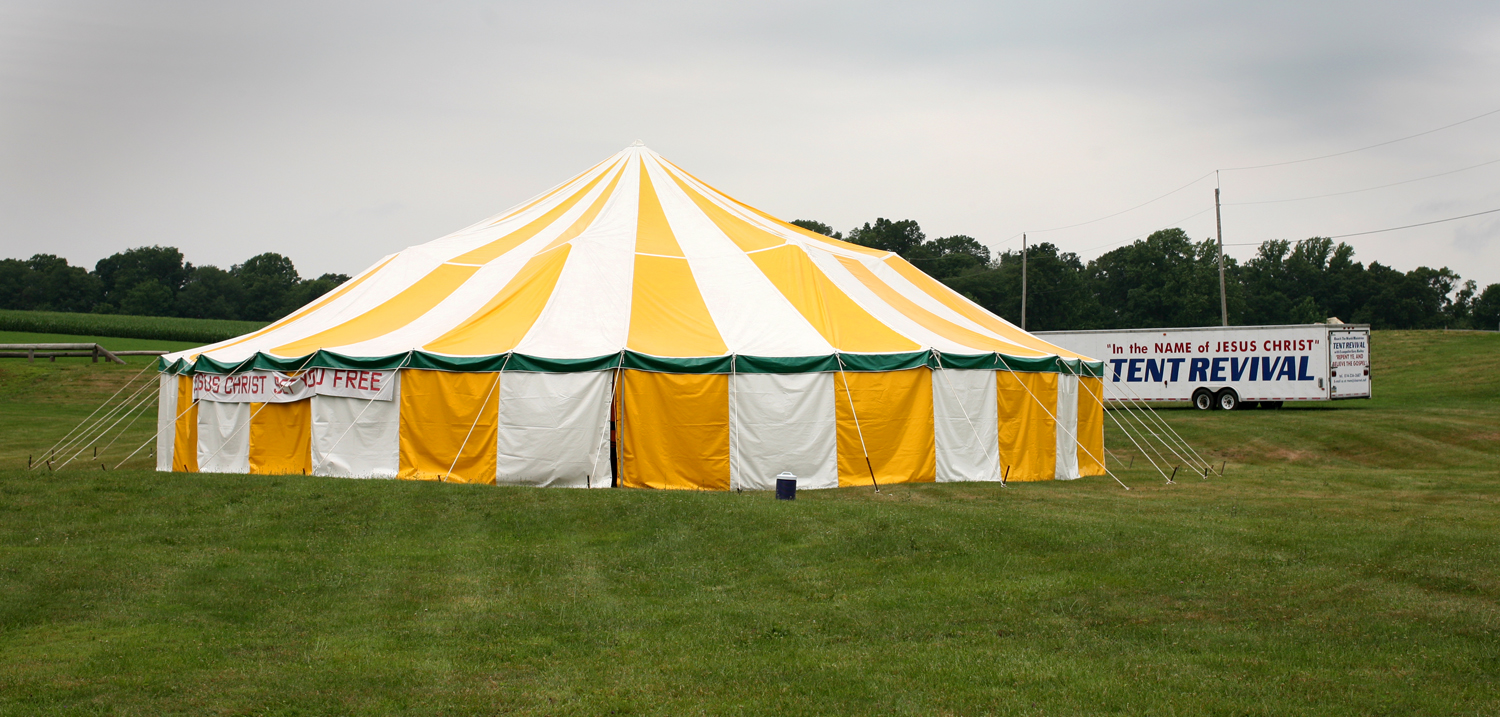 A marquee tent set up for a Christian tent revival event in (according to the Flickr user's neighboring uploads [1][2]) rural Pennsylvania, USA. The sign affixed to the tent reads "Jesus Christ set you free".